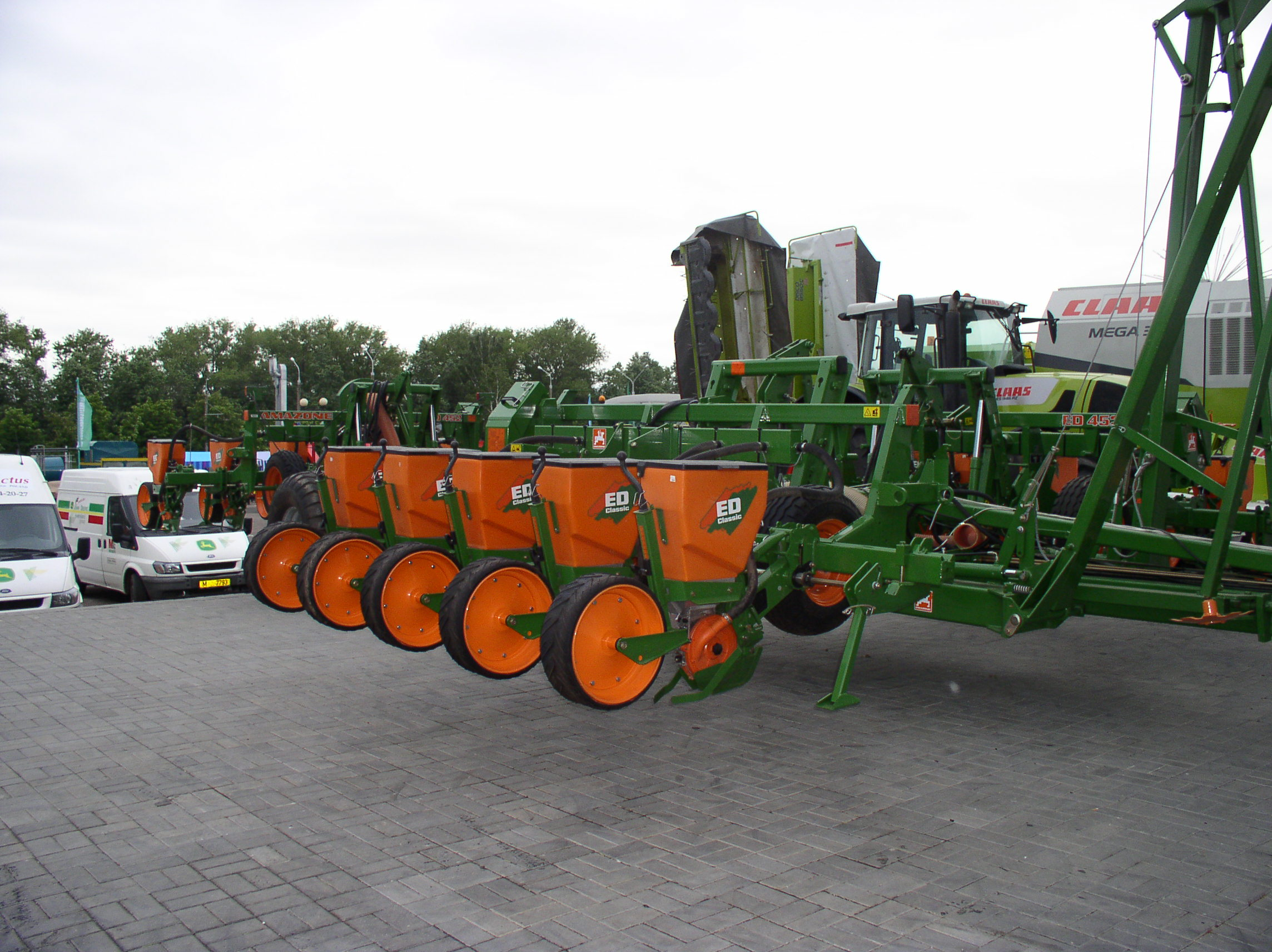 Machinery. Agriculture Expo in Minsk, Belarus.